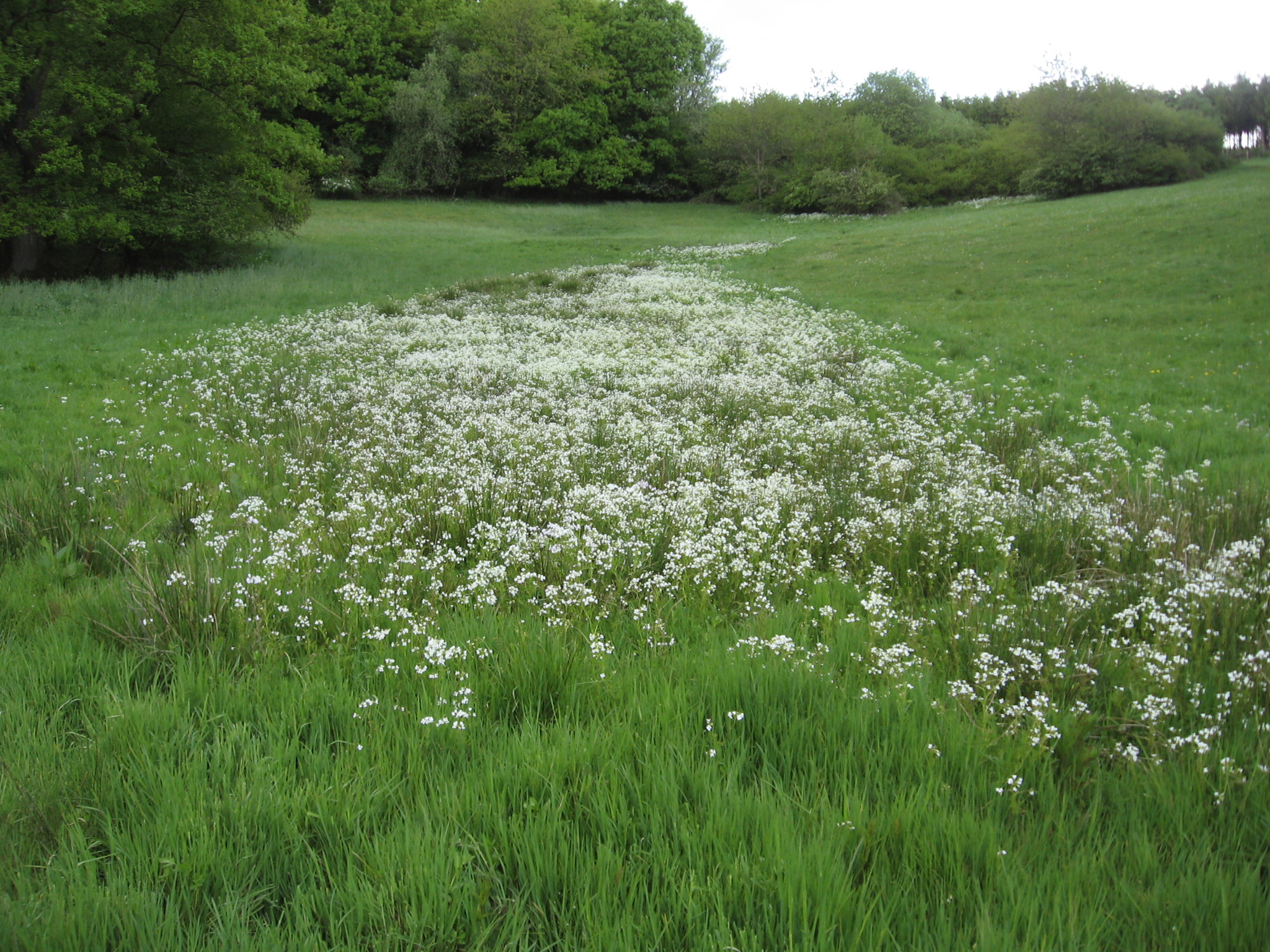 Cardamine amara near Brilon (Germany).